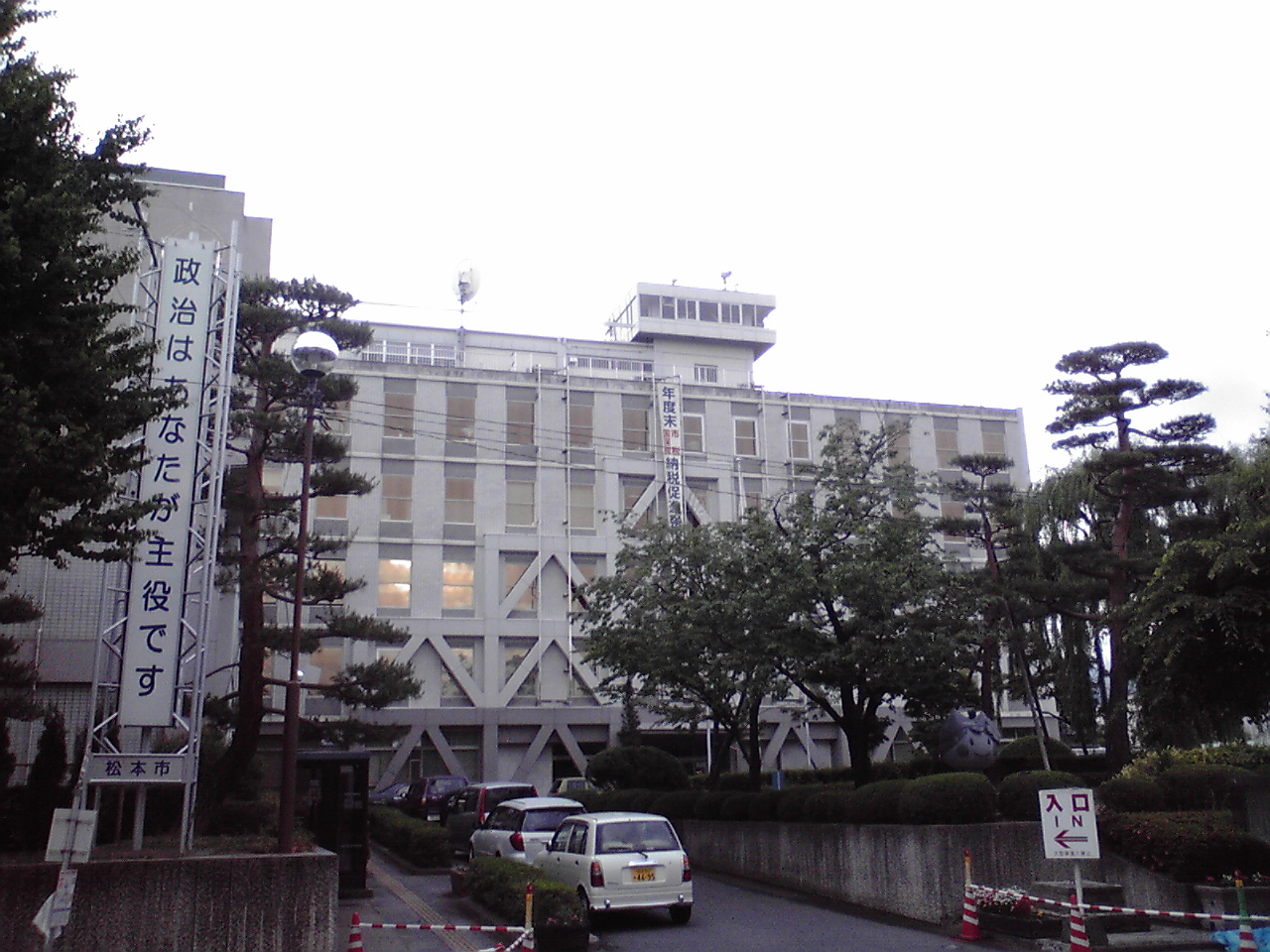 Image of Matsumoto city office main office building in Matsumoto city, Nagano Prefecture, Japan.